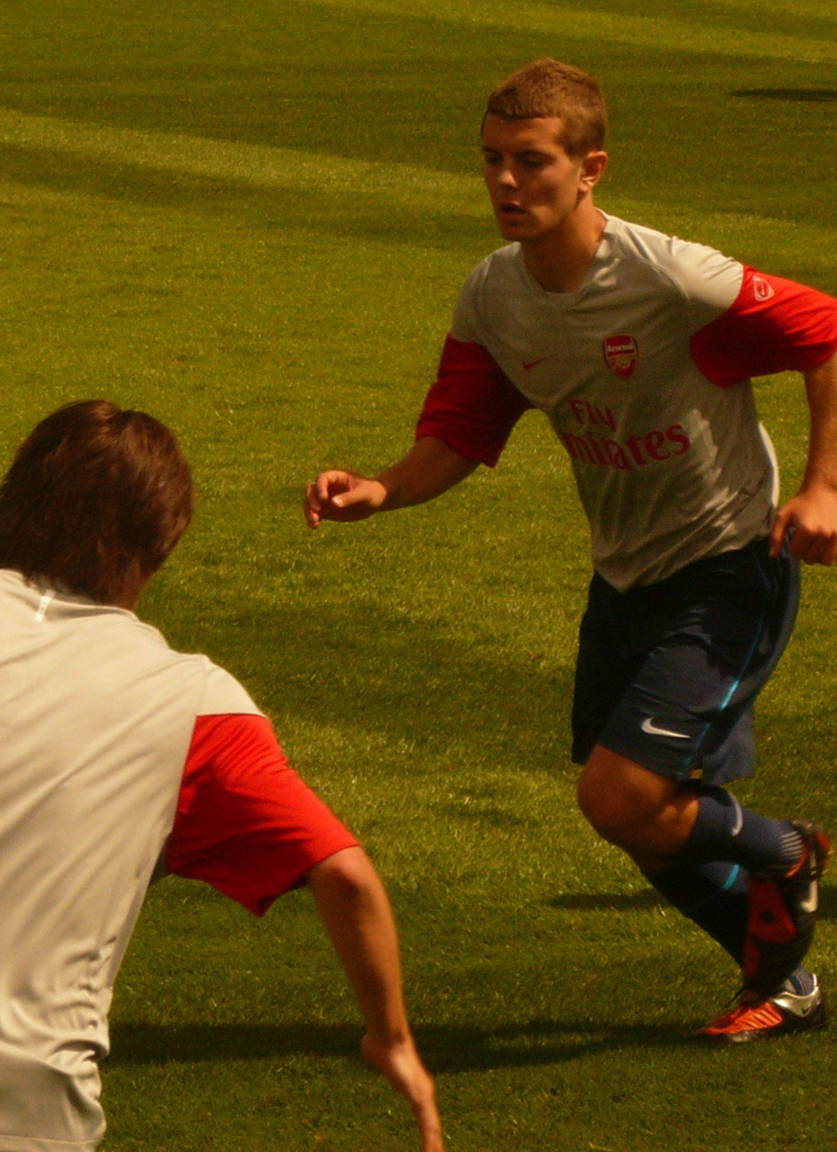 Glyn Trebble